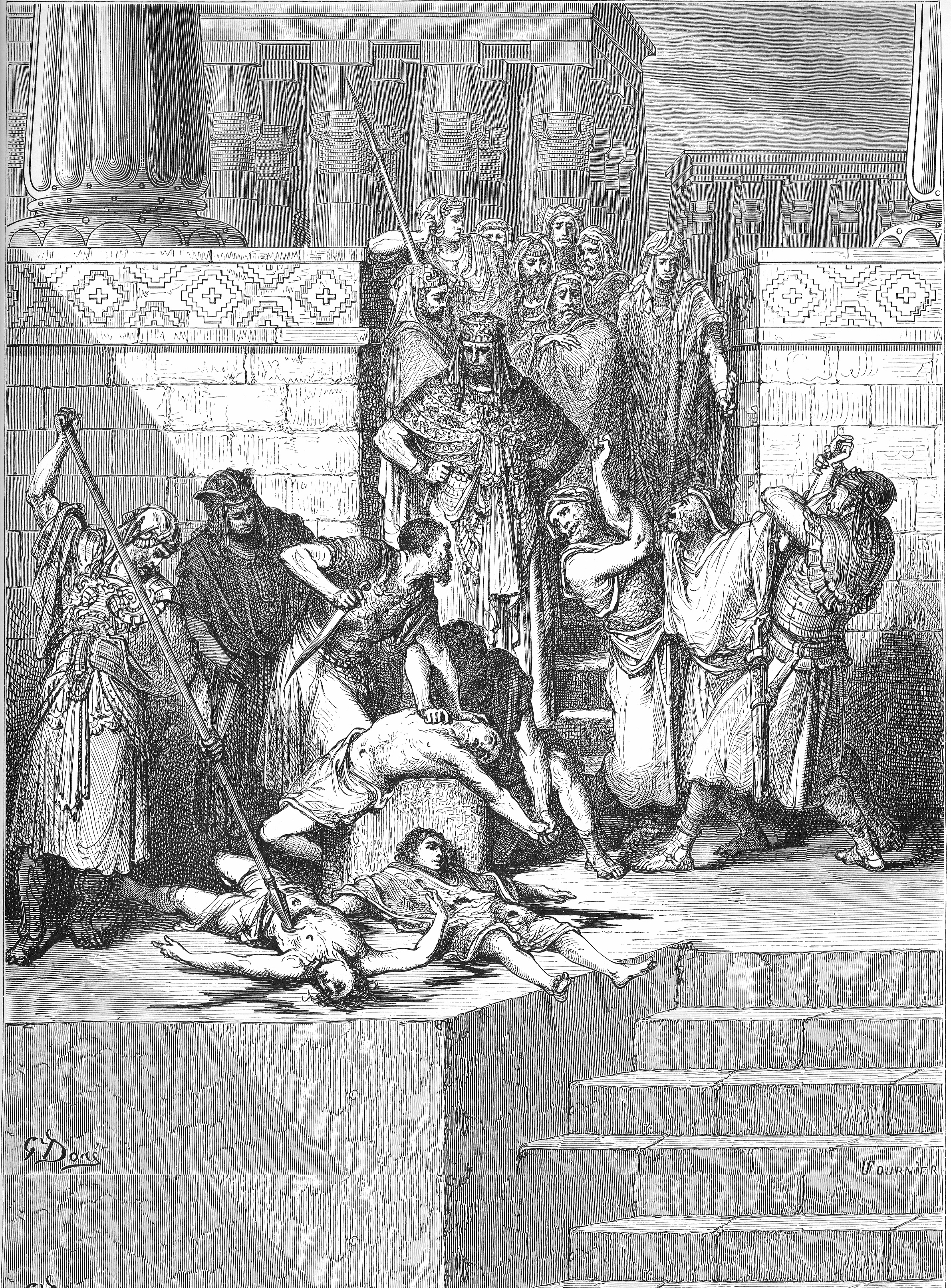 Zedekiah's Sons Are Slaughtered before His Eyes (2 King 25:1-7)